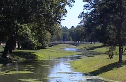 Lagoons in Forest Park in St. Louis made to look as the River des Peres may have looked in the 19th century. The real River des Peres was put in huge sewer pipes under Forest Park in the 1920s.